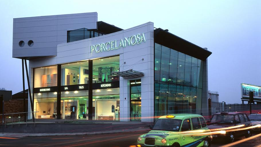 Porcelanosa Store, Fulham.